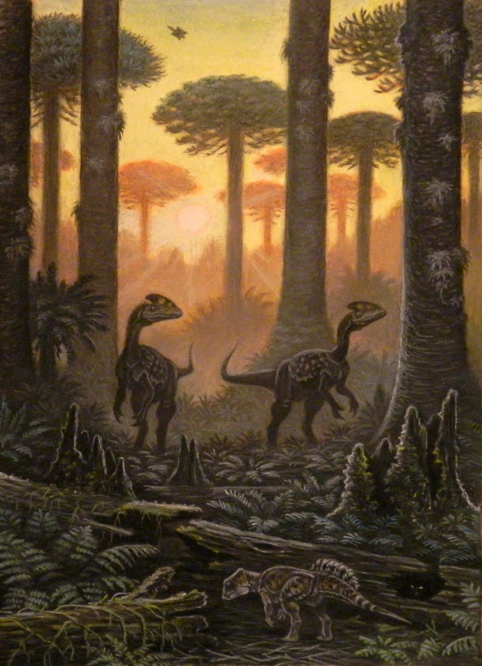 two Guanlong and a Yinlong. Plants shown are consistent with what's known from the Shishugou Formation.[1] Dinosaur proportions match published skeletal reconstructions by Gregory S. Paul in the 2016 book The Princeton Field Guide to Dinosaurs.